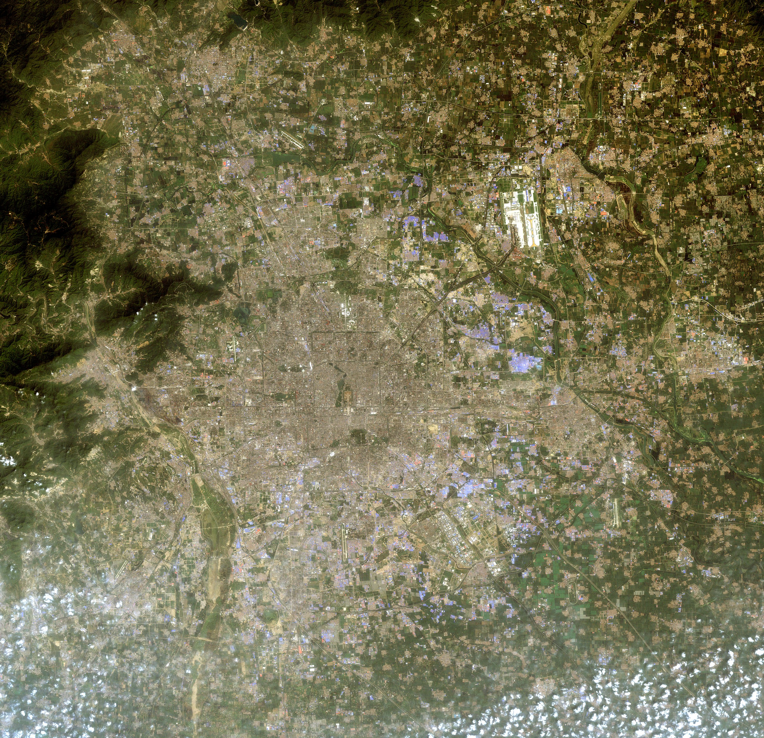 Beijing satellite image, near natural colors, resolution 30 m, LandSat-5, 2010-08-08 Image ID LT51230322010220IKR00